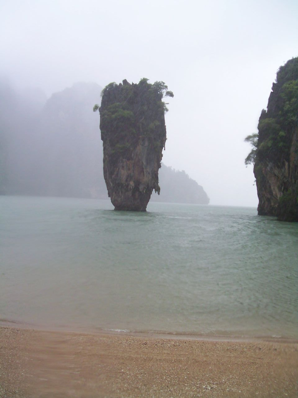 Ko Tapu aka James Bond Island at rain (Thailand)